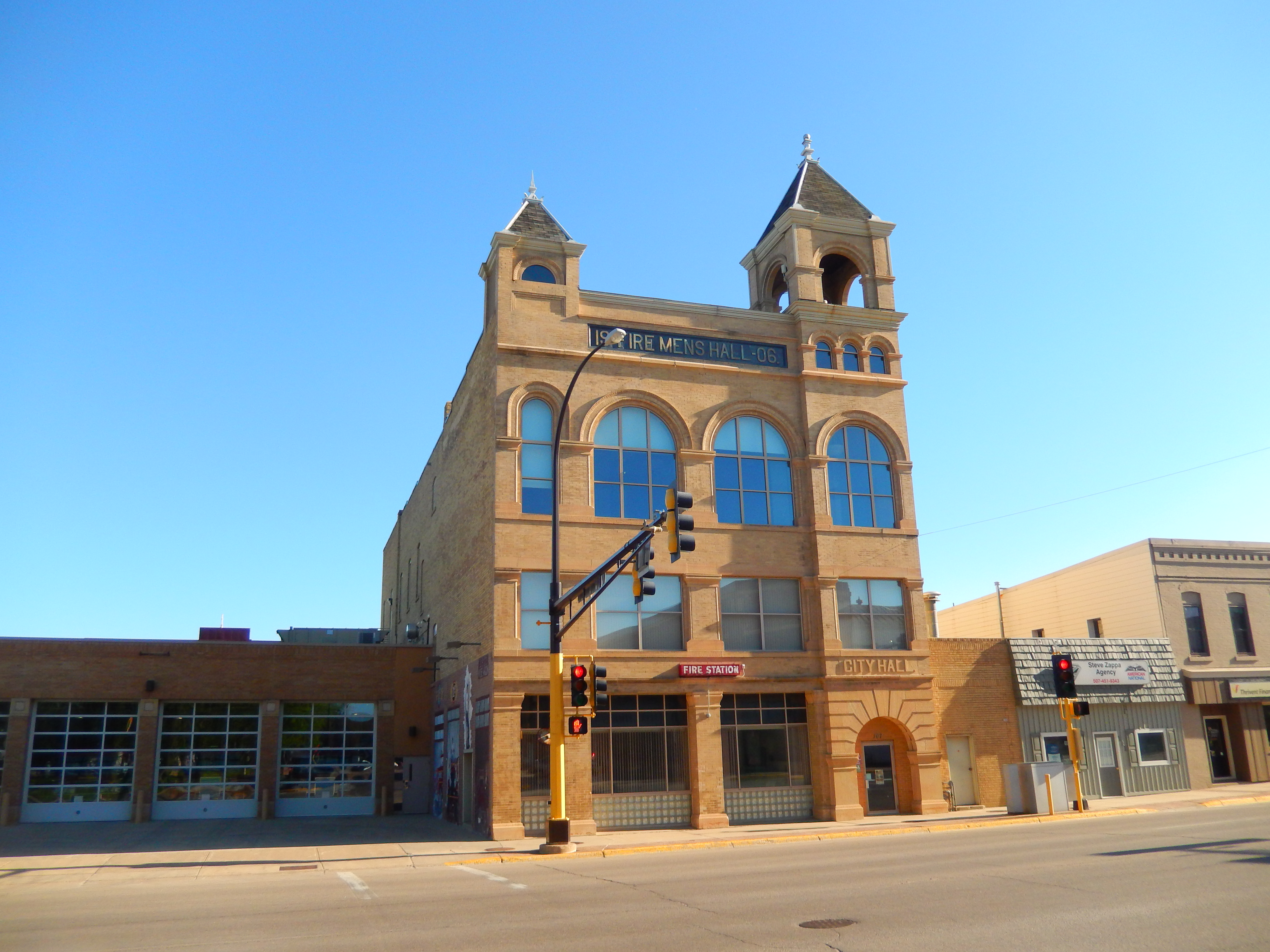 This is the Owatonna Firemen's Hall, which is a historic building in downtown Owatonna and is home to the Owatonna Fire Department